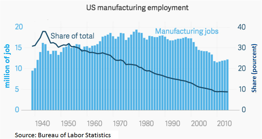 U.S. manufacturing employment